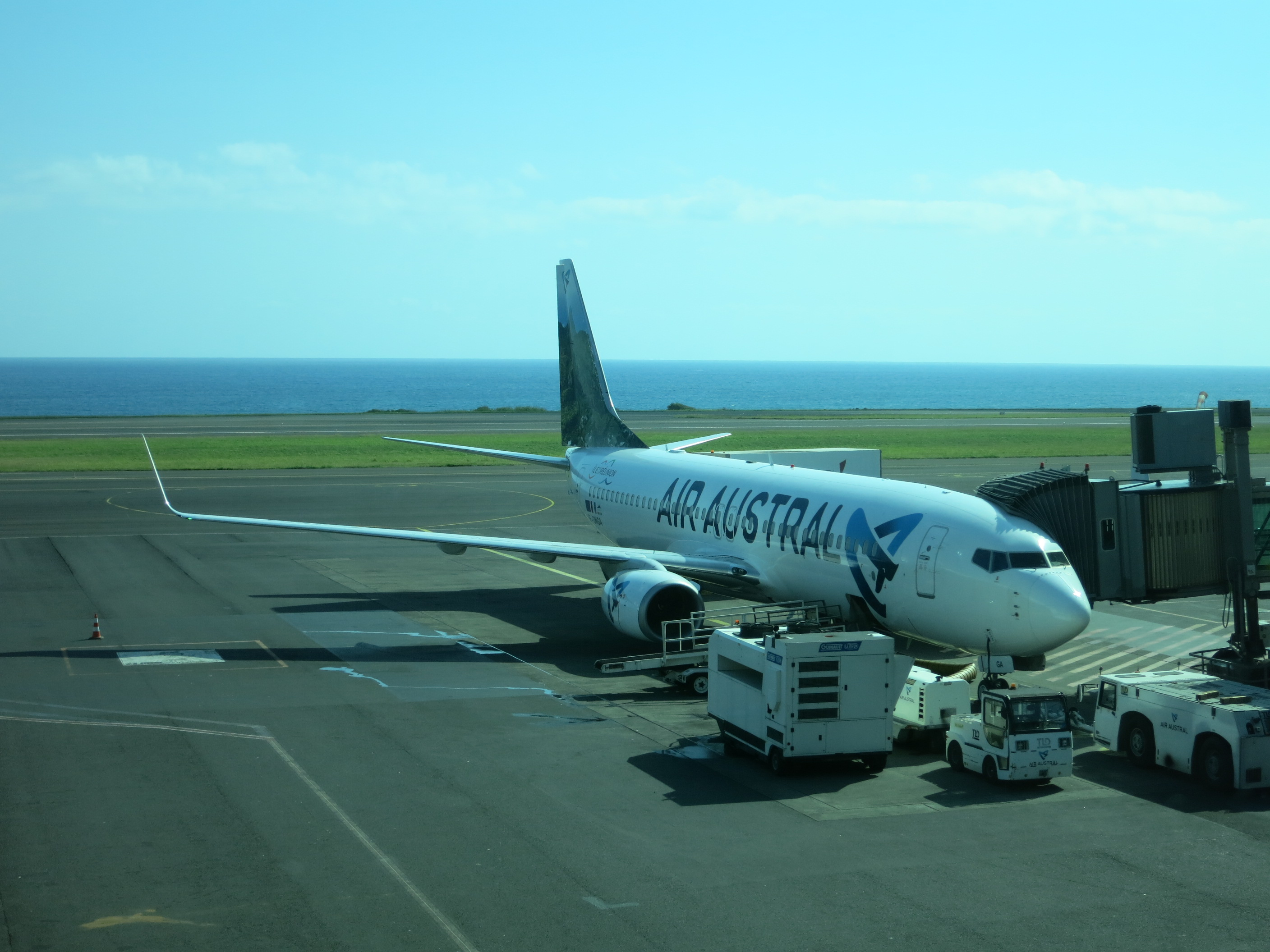 Boeing 787-800 of Air Austral at Roland Garros Airport